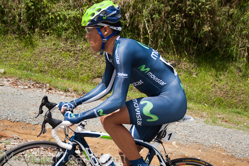 Carlos Gálviz, cyclist from Team Movistar Continental in Vuelta a Antioquia 2011